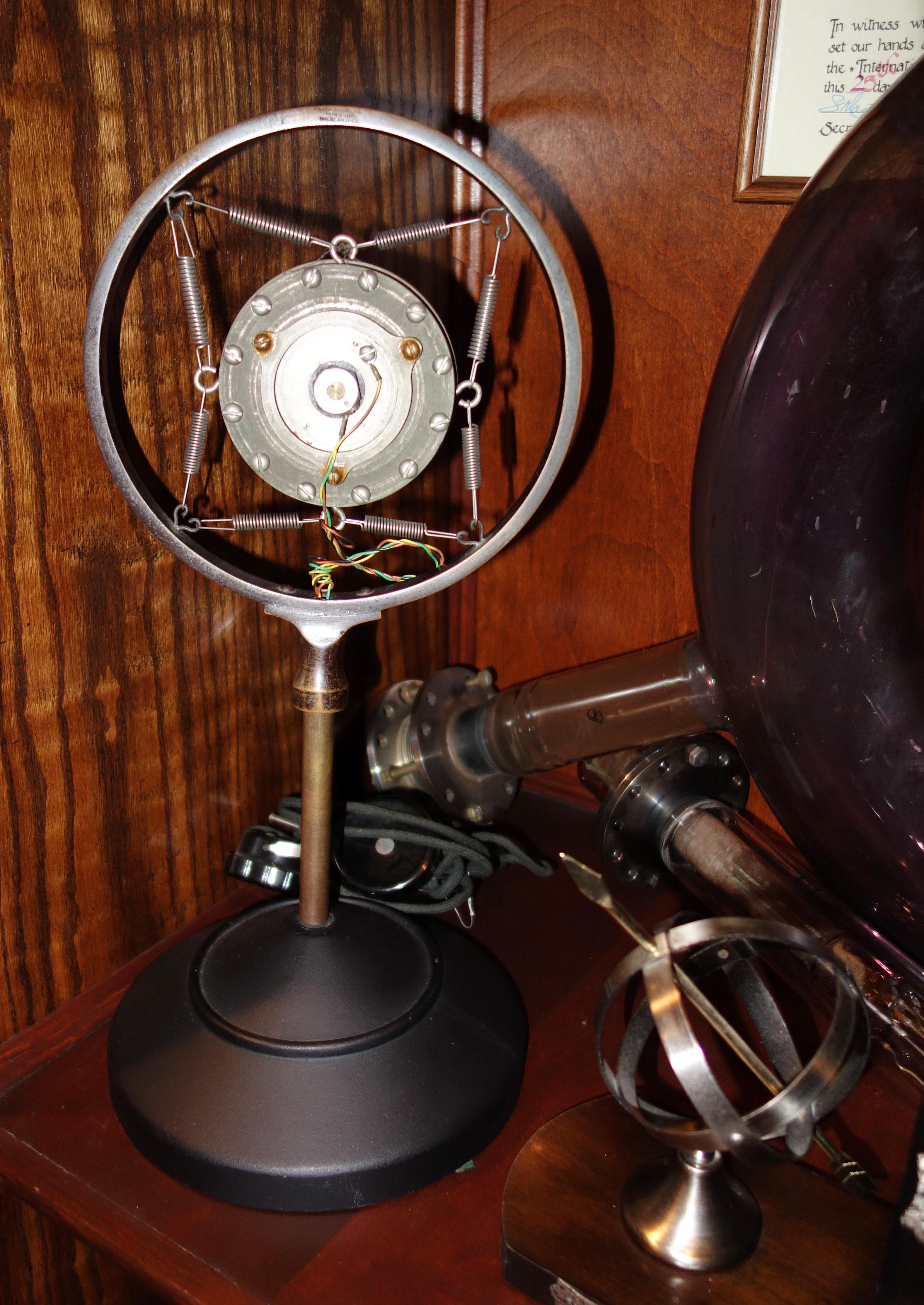 Exhibit in the Bayernhof Museum, 225 St. Charles Place, O'Hara Township, Pittsburgh, Pennsylvania, USA. This is a Western Electric double-button carbon microphone, invented at Bell Laboratories in the early 1920s Extremely widely used in broadcasting until the 1930s, it is also called the "ring and spring" microphone because the microphone unit is suspended by springs at the center of a support ring to isolate it from vibrations of the stand. Inside the microphone unit there is a stiff aluminum diaphragm with two cylindrical chambers or "buttons" with carbon granules between two electrodes, attached to each side of the diaphragm. The button pickups are connected to a center-tapped audio transformer in a "push-pull" circuit, which cancels the high 2nd harmonic distortion due to carbon's nonlinear response to pressure, and the thin diaphragm had high resonant frequency and was damped by an air cell to reduce it's Q, resulting in a much flatter frequency response and lower distortion than other carbon microphones.